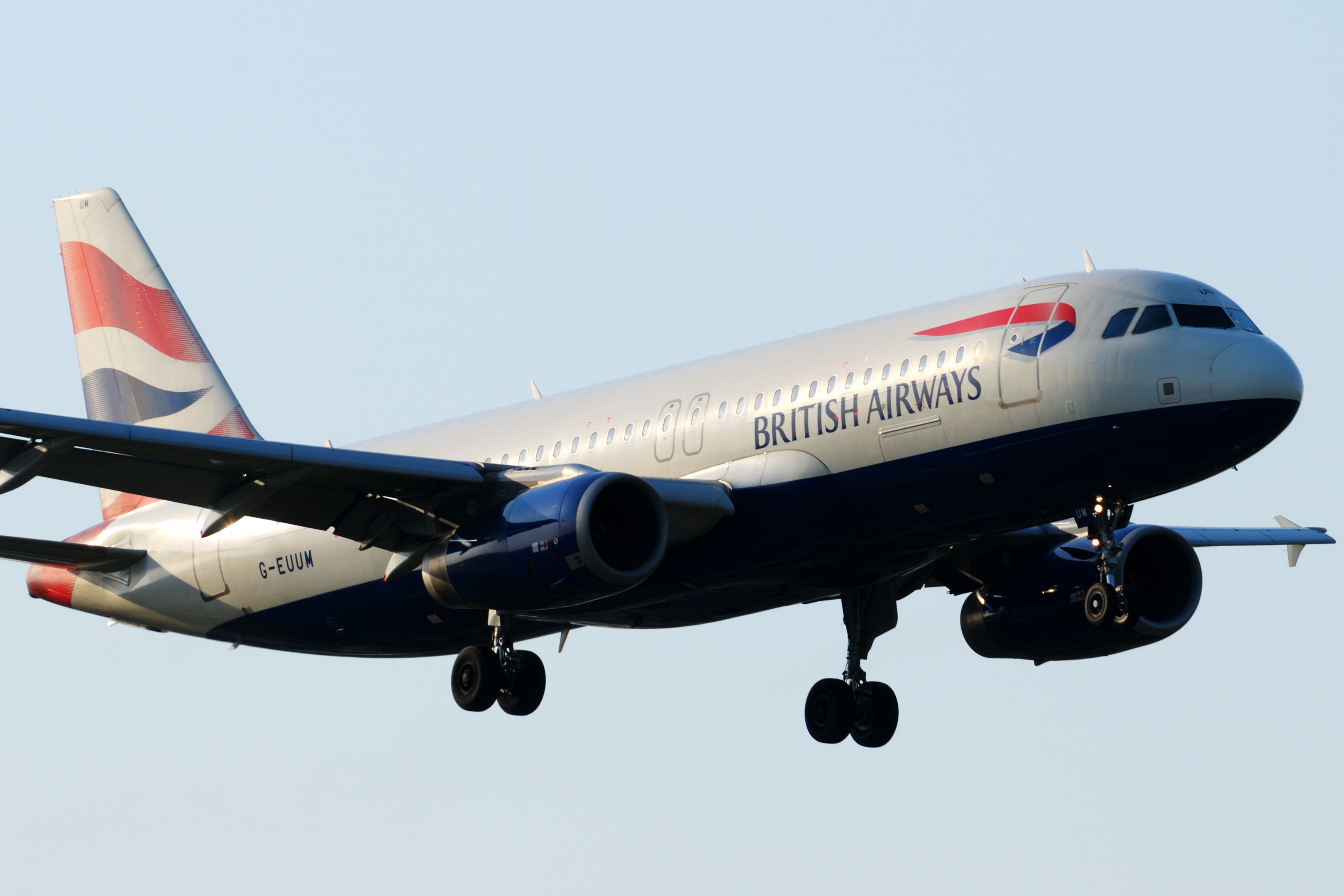 Airbus A320-232 G-EUUM British Airways